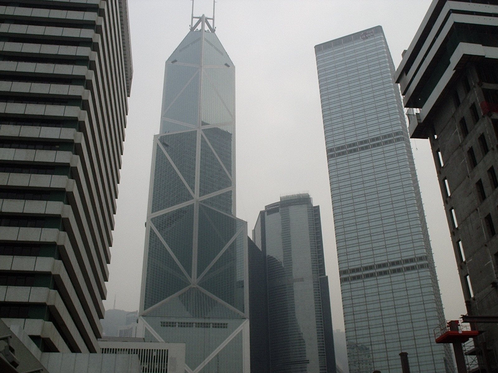 Skyscrapers clustered together in Central, Hong Kong.